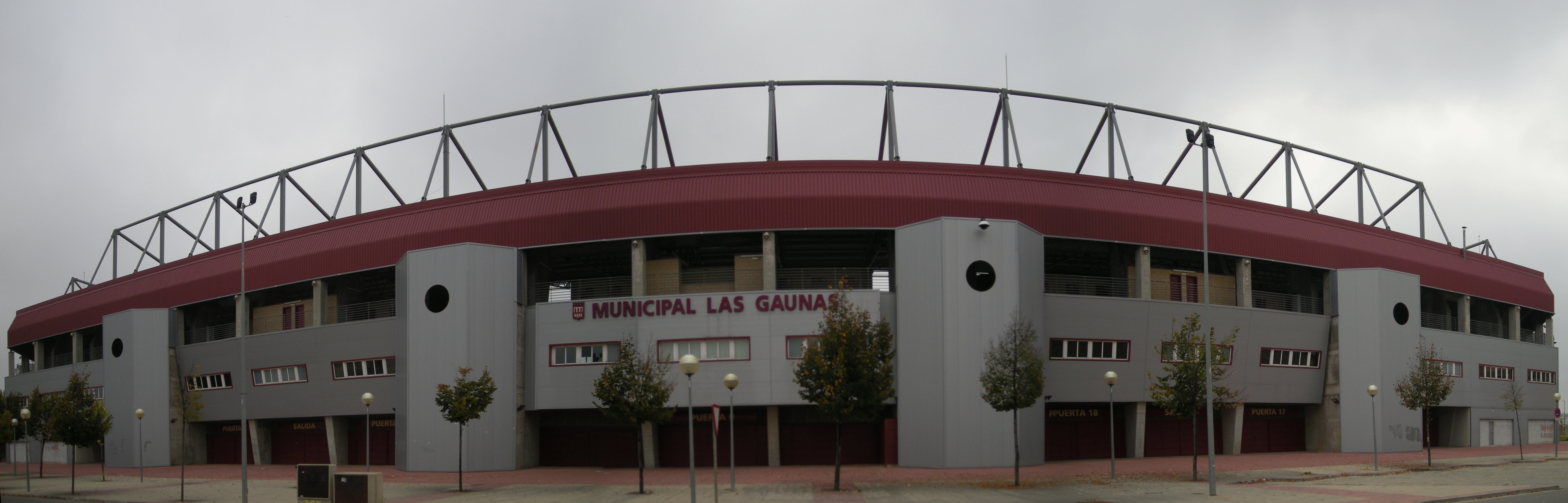 Panoramic of Las Gaunas Stadium, Logroño, La Rioja, Spain.